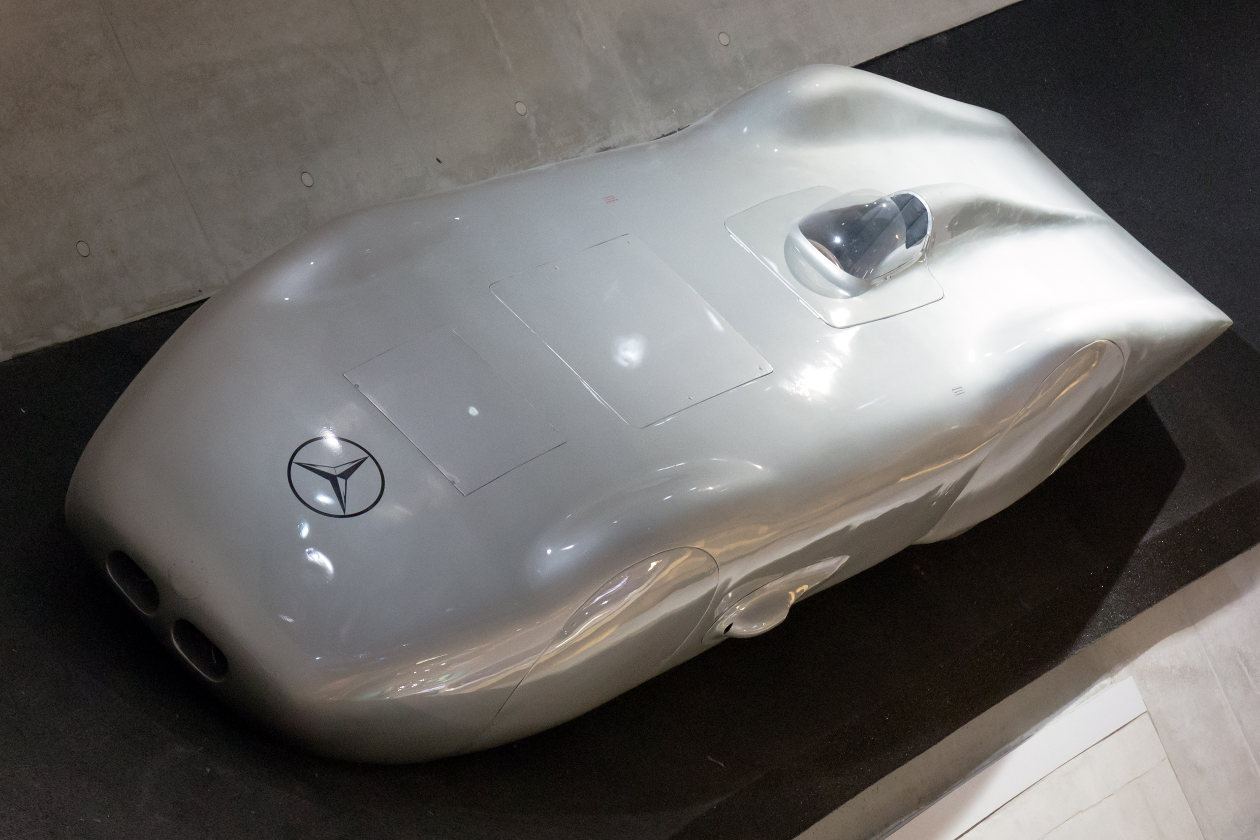 1938 Mercedes-Benz W125 Rekordwagen